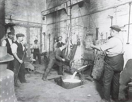 Interior of Gillett & Johnston bell foundry, Union Road, Croydon, England, with molten metal being poured into a crucible, c1920